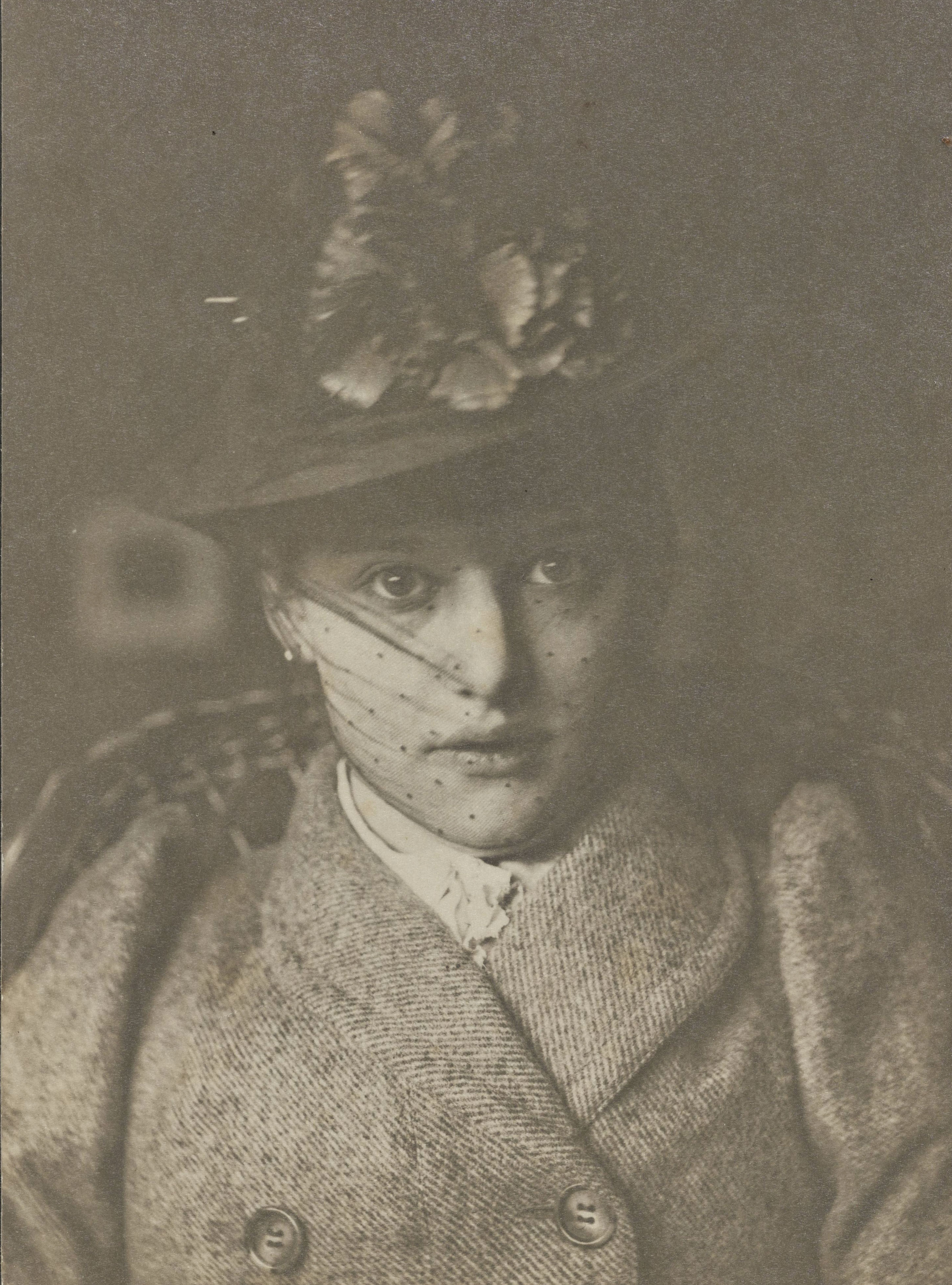 Portret van Lise Jordan met sluier